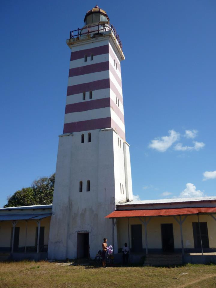 Photos from Harry Davis's time on this varied project. For more information please visit the Tanzania Dive, Teach & Wildlife Adventure project page of the Frontier website.